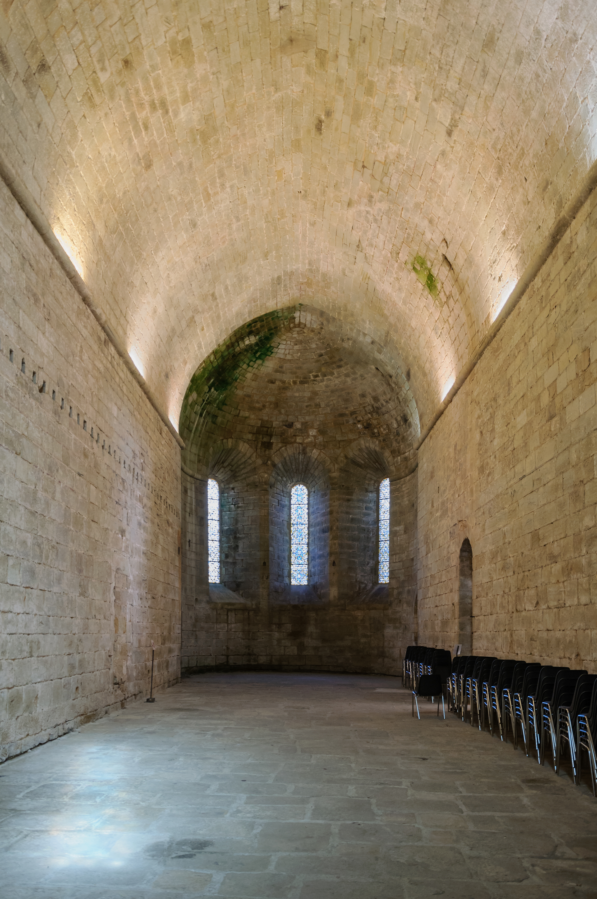 The church of the Saint-Michel de Grandmont Priory in Saint-Privat, Hérault, France .